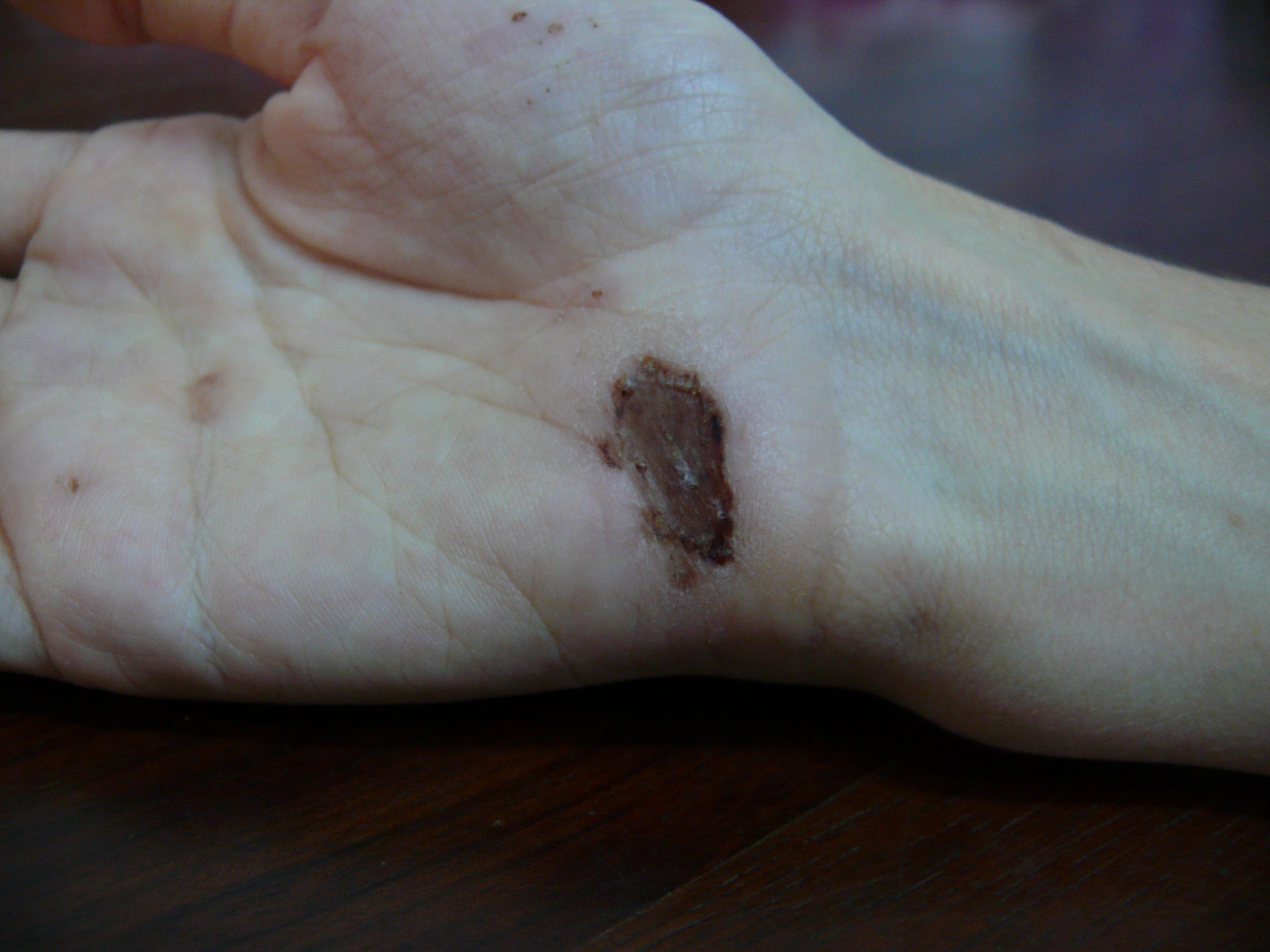 Wound on palm of hand six days after falling off a bike onto concrete. Previous photos: Day 1: Image:Wound on palm of hand.jpg Day 2: Image:Wound on palm of hand - day 2.jpg Day 4: Image:Wound on palm of hand - day 3.jpg Day 4: Image:Wound on palm of hand - day 4.jpg Day 5: Image:Wound on palm of hand - day 5.jpg Following photos: Day 7: Image:Wound on palm of hand - day 7.jpg Day 8: Image:Wound on palm of hand - day 8.jpg Day 9: Image:Wound on palm of hand - day 9.jpg Day 10: Image:Wound on palm of hand - day 10.jpg Day 11: Image:Wound on palm of hand - day 11.jpg Day 12: Image:Wound on palm of hand - day 12.jpg Day 13: Image:Wound on palm of hand - day 13.jpg Day 14: Image:Wound on palm of hand - day 14.jpg Day 15: Image:Wound on palm of hand - day 15.jpg Day 16: Image:Wound on palm of hand - day 16.jpg Day 17: Image:Wound on palm of hand - day 17.jpg Day 18: Image:Wound on palm of hand - day 18.jpg Day 19: Image:Wound on palm of hand - day 19.jpg Day 20: Image:Wound on palm of hand - day 20.jpg